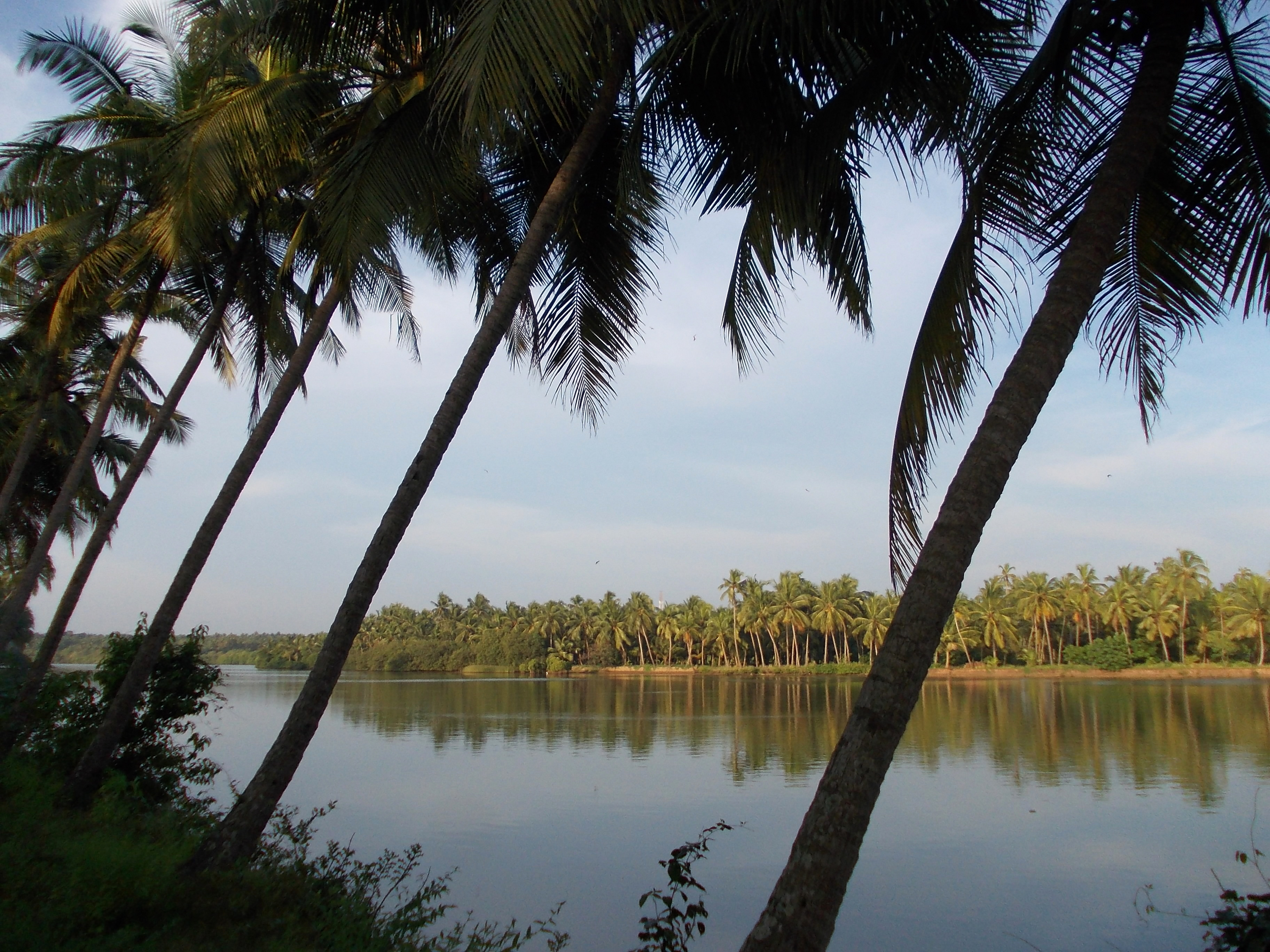 Anjarakkandi river at muzhappilangad